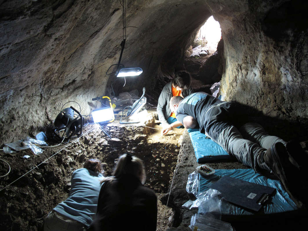 Excavation process in Arlanpe cave